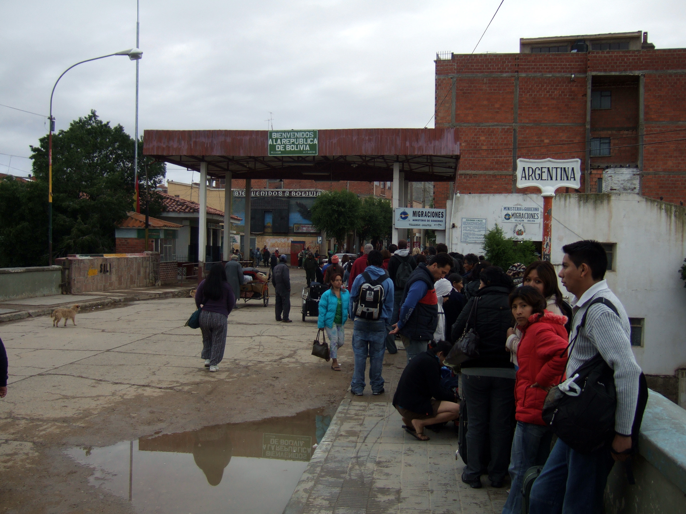 Border crossing into Villazón. The queue of people has cleared exit formalities from Argentina (La Quiaca), and is waiting to pass through border control into Bolivia (Villazón).